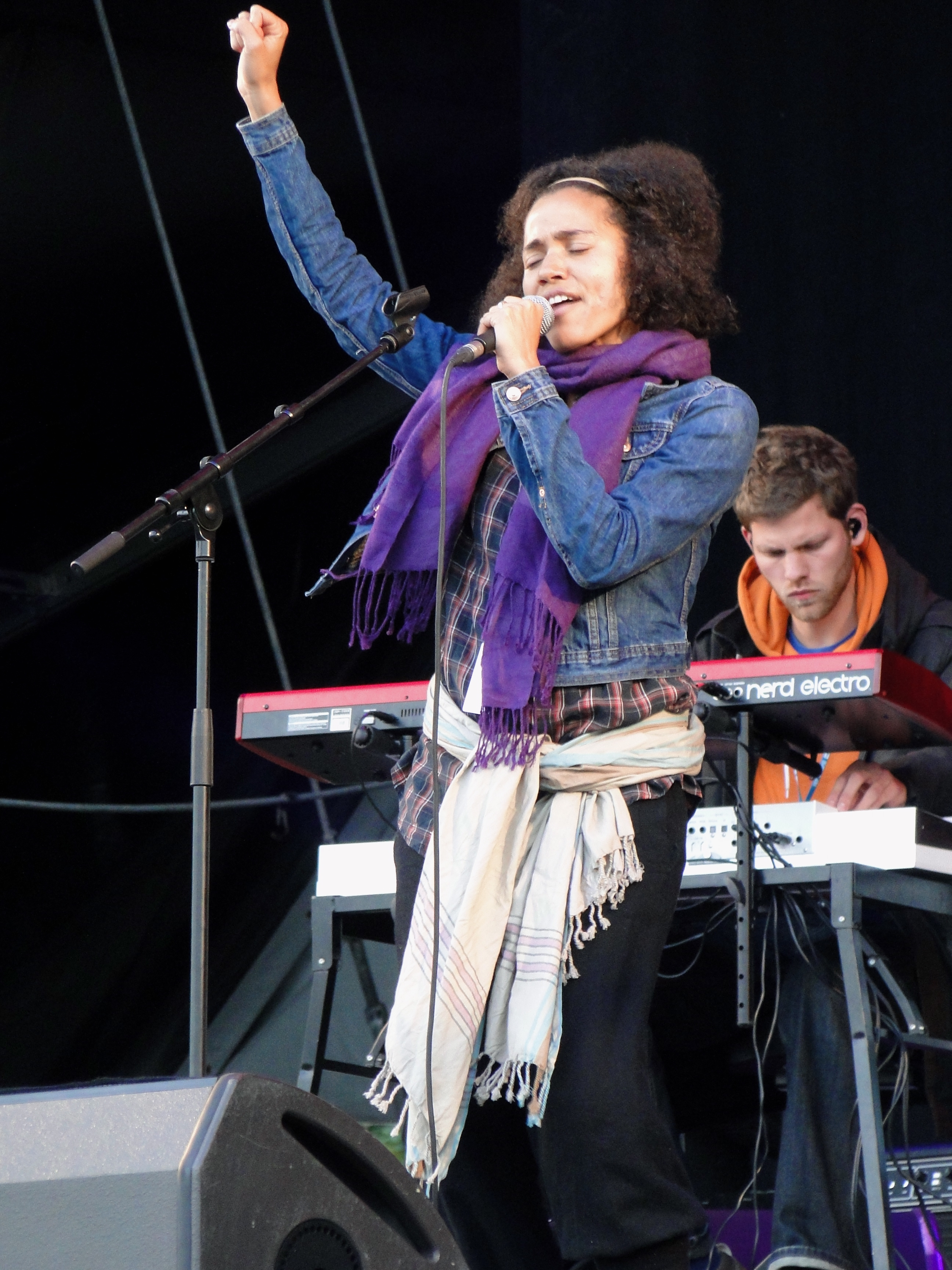 Nneka performing live at "Hamburger Kultursommer", Germany, 2011